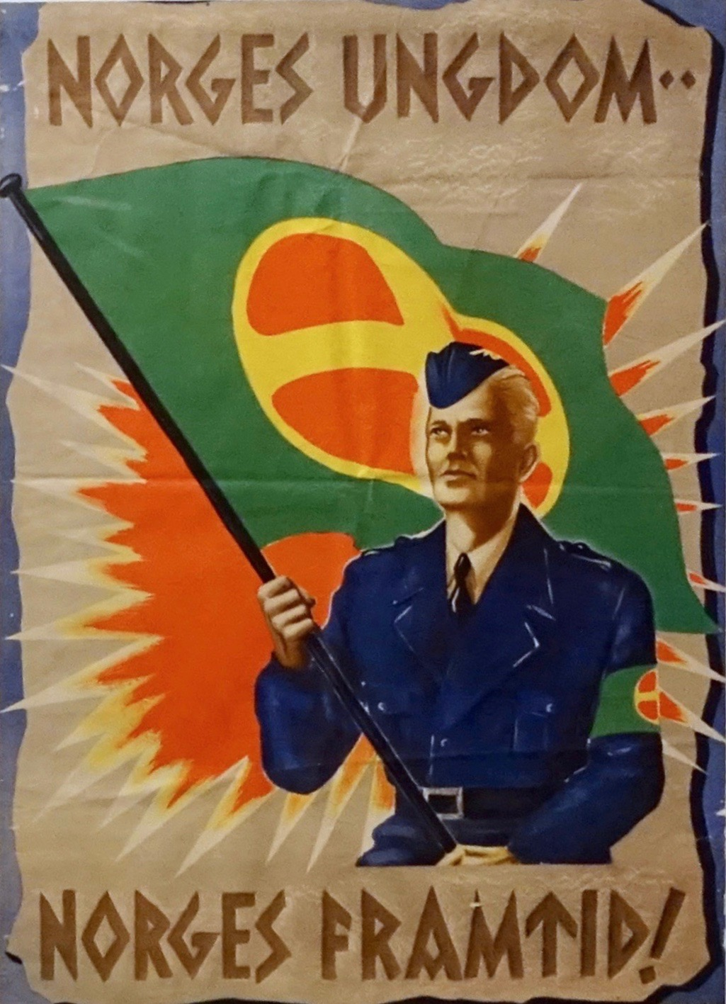 Norges Ungdom – Norges framtid! ("The young people of Norway – The future of Norway!") Propaganda poster for joining the NS Ungdomsfylking (NSUF), the youth organization of the Nasjonal Samling (NS), fascist/Nazi party in Norway before and during World War 2. Unknown designers/illustrators. Herolden advertising agency, Oslo 1941. The poster show a boy/young man in NSUF uniforms with green NSUF flag. Cropped version of photo 2019-03-07 from the exhibition "PROPAGANDA" showed 2017-2019 at Justismuseet (Norwegian Justice Museum) in Trondheim, Norway